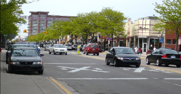 Downtown Royal Oak